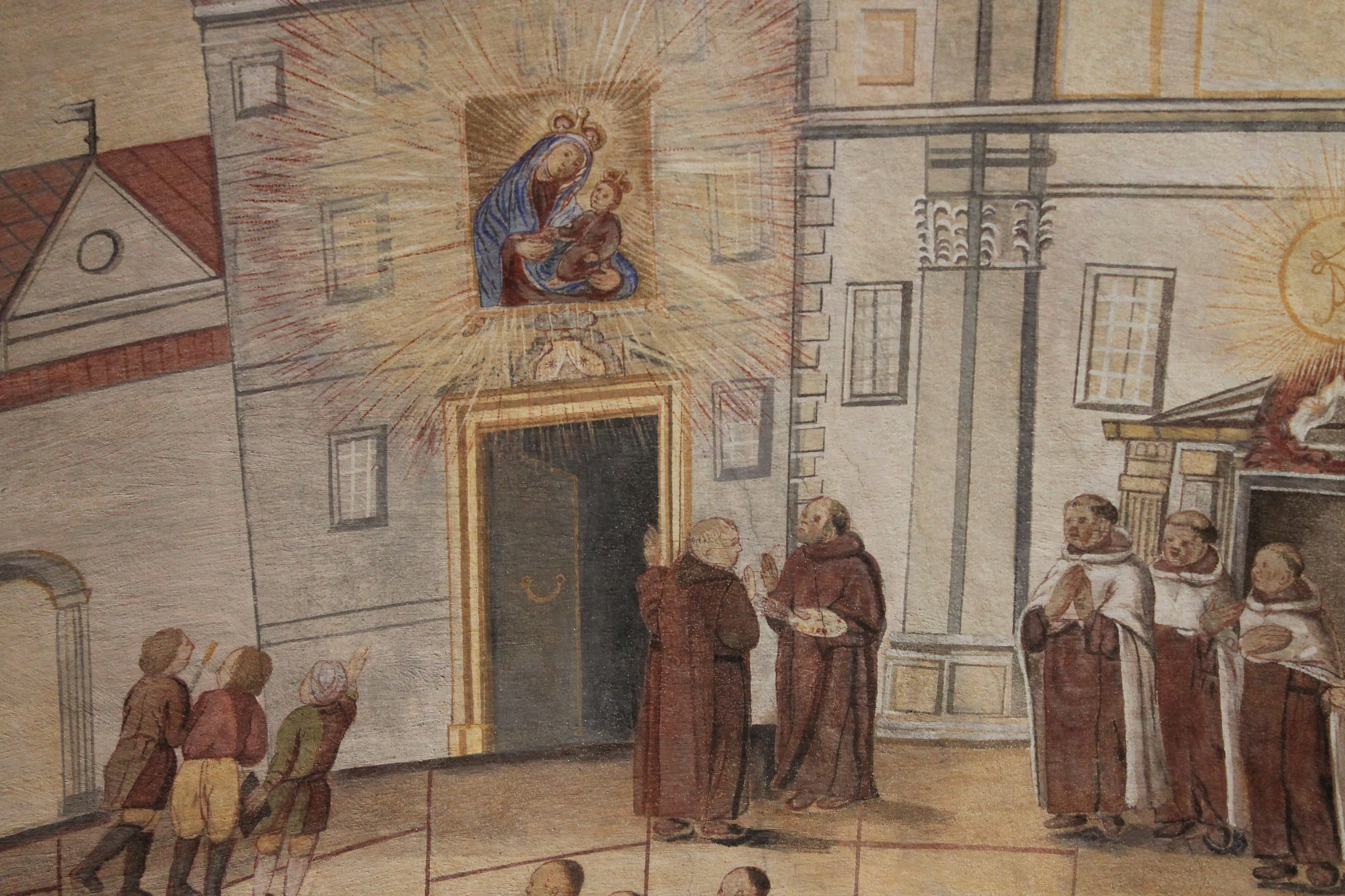 Carmelites, Karmelicka 19 Cracow